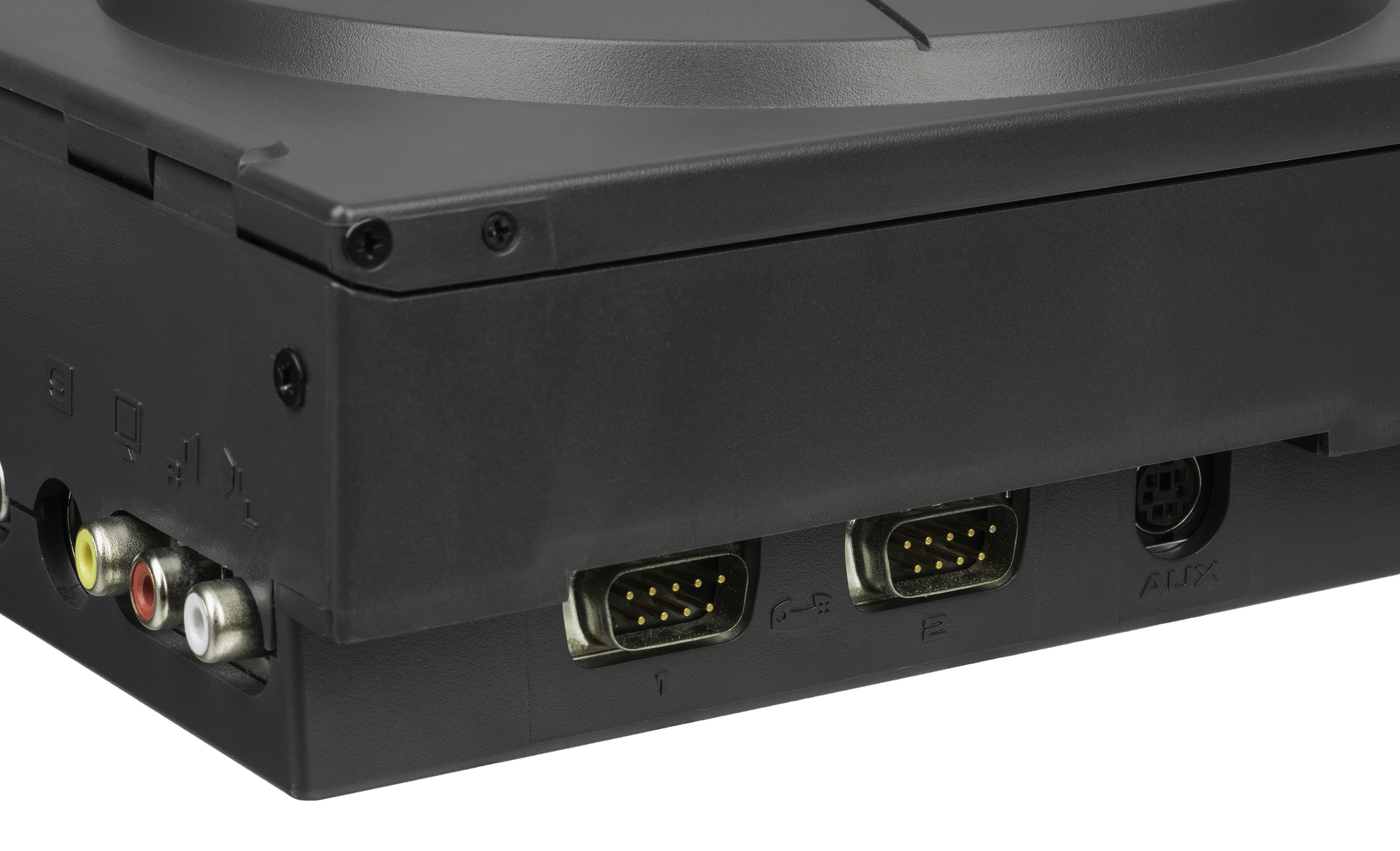 The Amiga CD32, a 32-bit, CD-ROM based video game console from Commodore, with one controller. Released in 1993 in Canada, Europe, Australia and Brazil, it turned the Amiga computer line into a dedicated gaming console. It failed in the market, mostly due to the collapse of Commodore soon after its release. Even without that, it's likely it would have failed based on similar consoles and Commodore's then-weak market presence. This picture is a close-up of the controller ports, which are tucked away on the back of the left side. It has two standard controllers, but also a AUX port that can be used for something like a standard Amiga mouse.